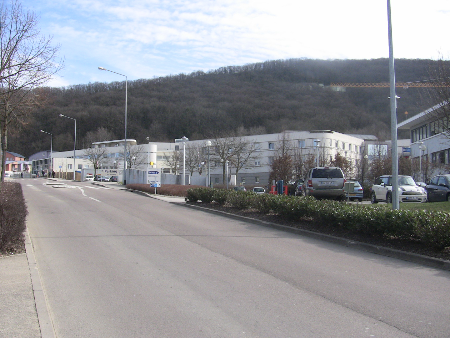 Franche-Comté hospital, located in Besançon (Doubs, France).